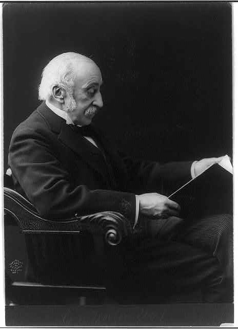 Charles Eliot Norton, 1827-1908, three-quarters length, seated, facing right; looking at book